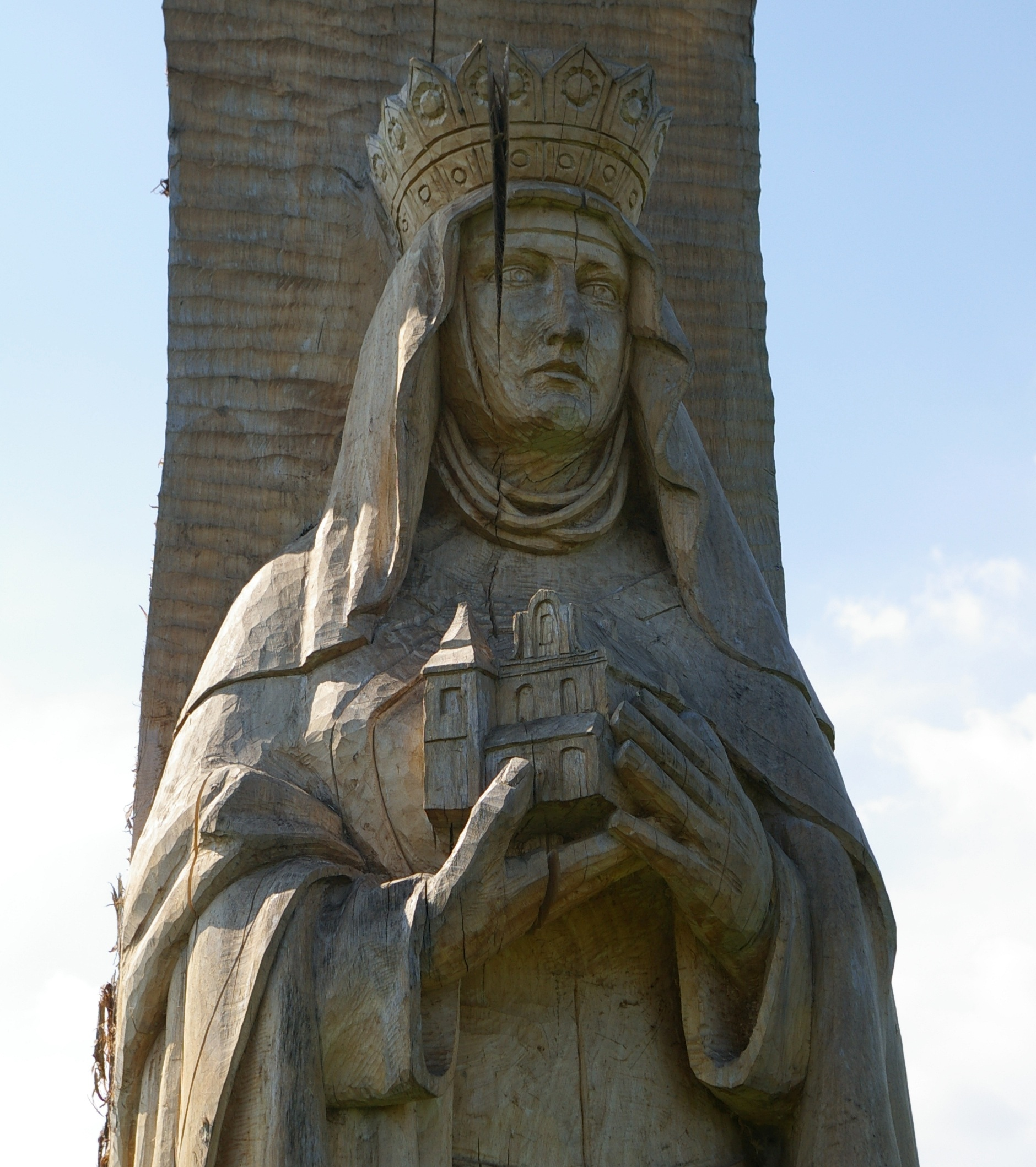 The wooden sculpture of Saint Kinga of Poland in Wiślica